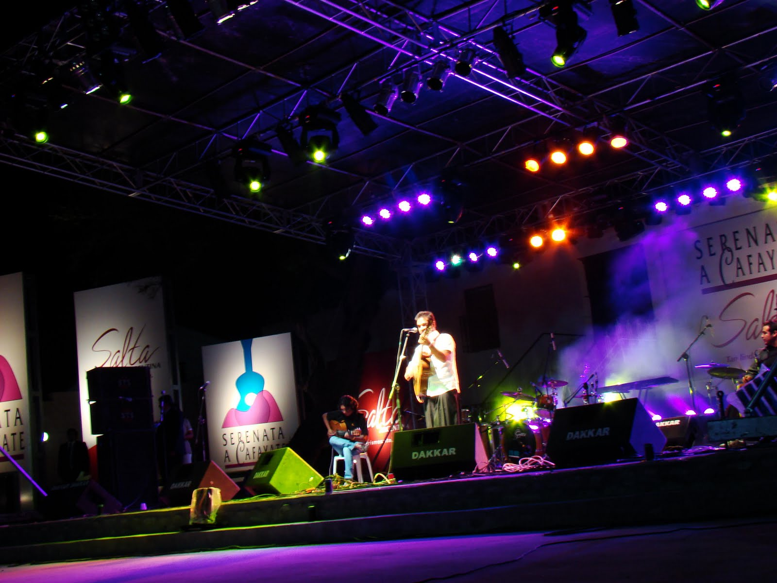 Serenata a Cafayate en la provincia de Salta